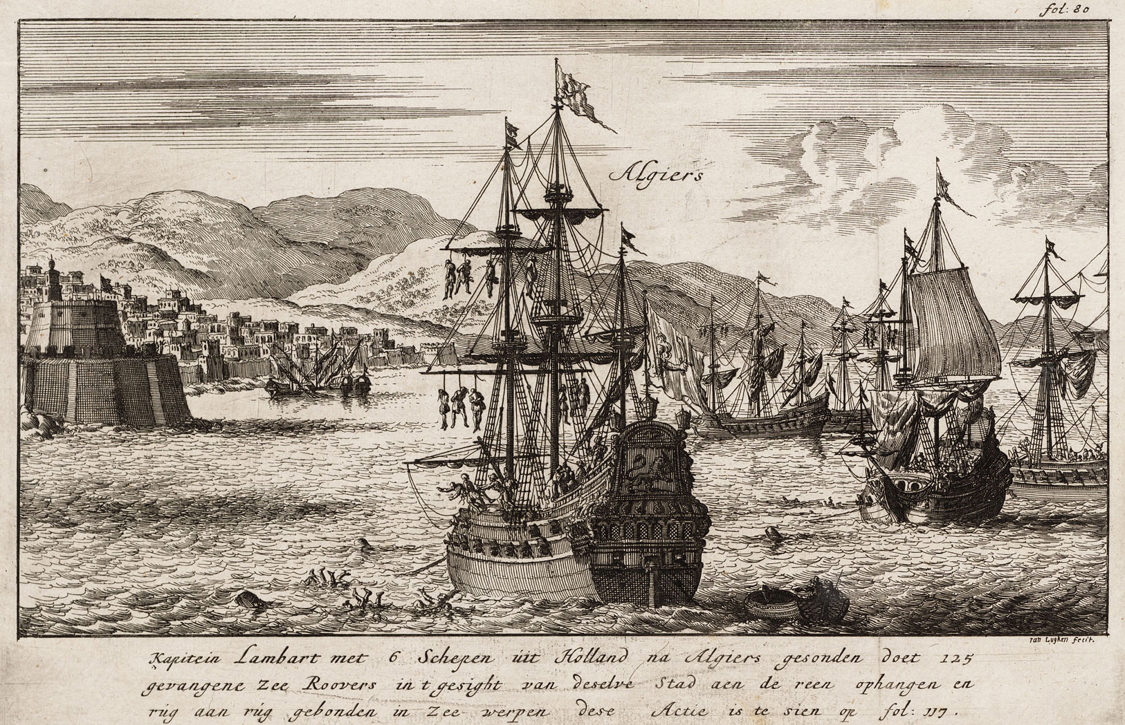 Captain Lambert with six ships carrying prisoners and sent to Algiers. 125 pirates are thrown, per two prisoners tied back to back, into the sea before Algiers.